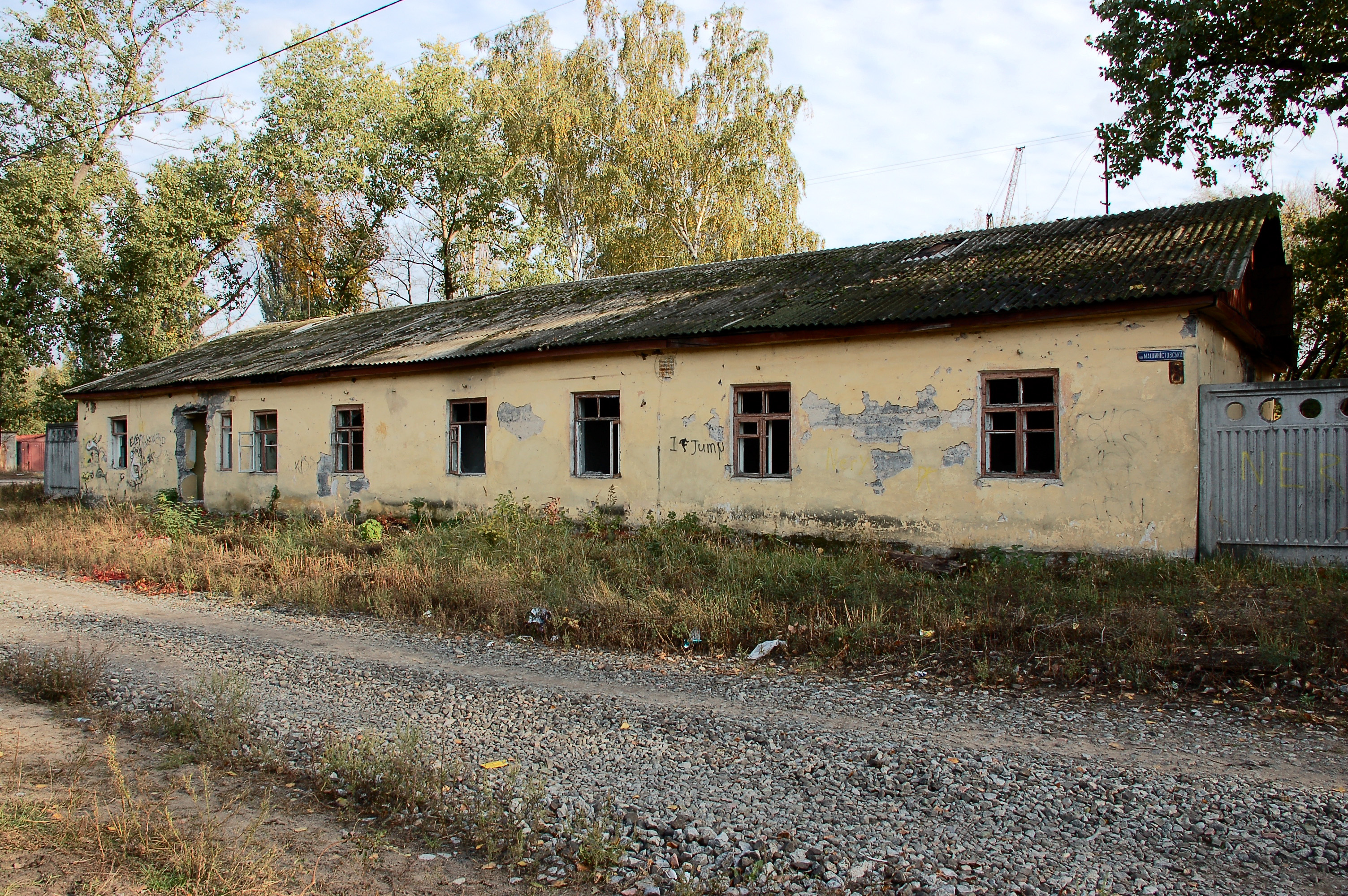 Kiev, Mashynistivska street. Ruin of a... what? Who knows what`s it in